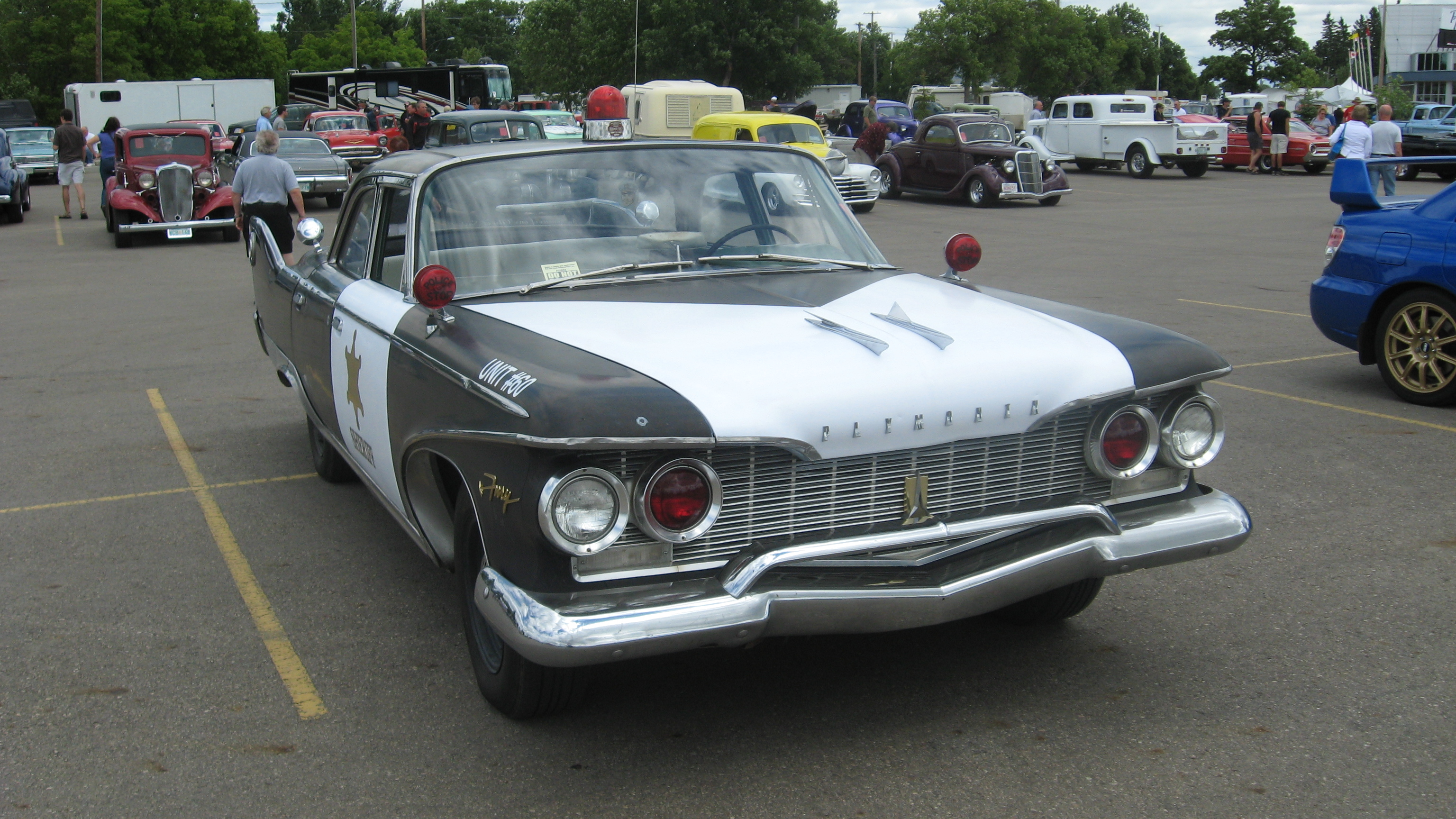 1960 Plymouth Fury police car replica, shot at local car show/swap meet